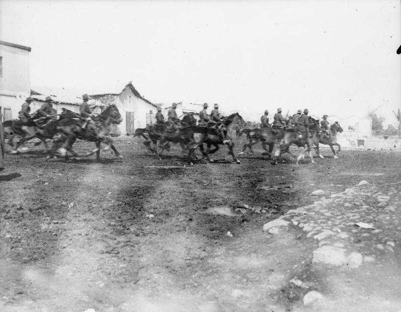 Men of the New Zealand Mounted Rifles Brigade galloping into Jericho. 21 February 1918.